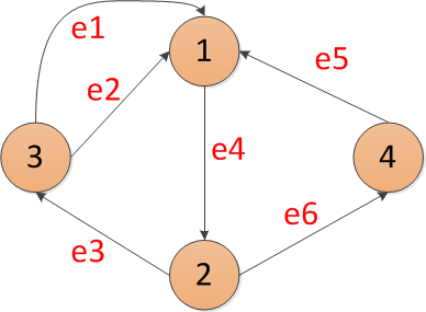 Do thi G7